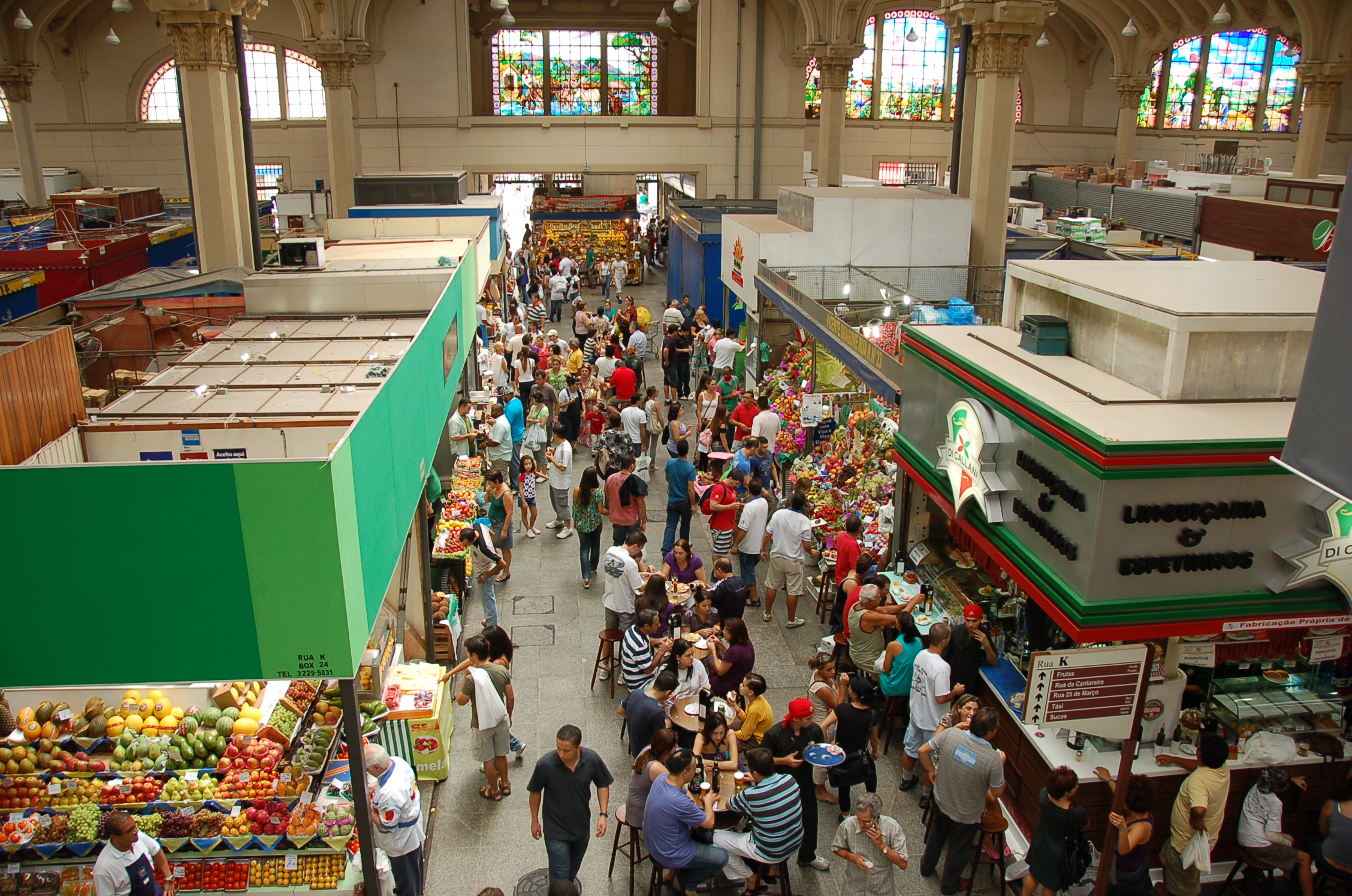 Sao Paulo - SP - Brazil - Municipal Market - Mercado Municipal